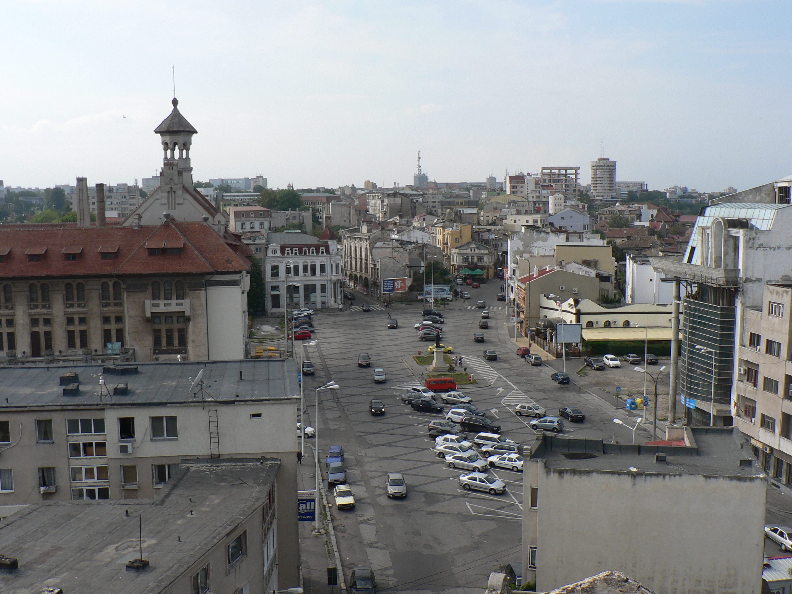 Ovidiu Square seen from mosque in Constanţa